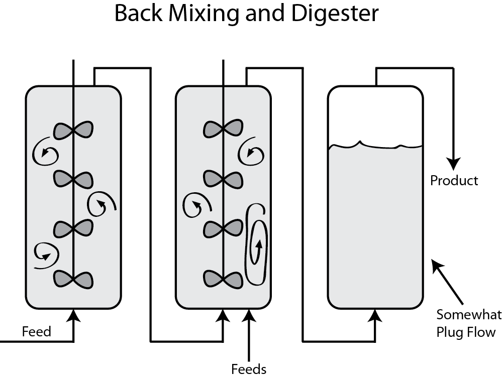 In the multi-tank CSTR system, even though there is back mixing and reactants could spend very little time in the stirred vessels, the digestion vessel has a flow resembling that of a plug flow system to ensure the residence time in the digester for reaction.